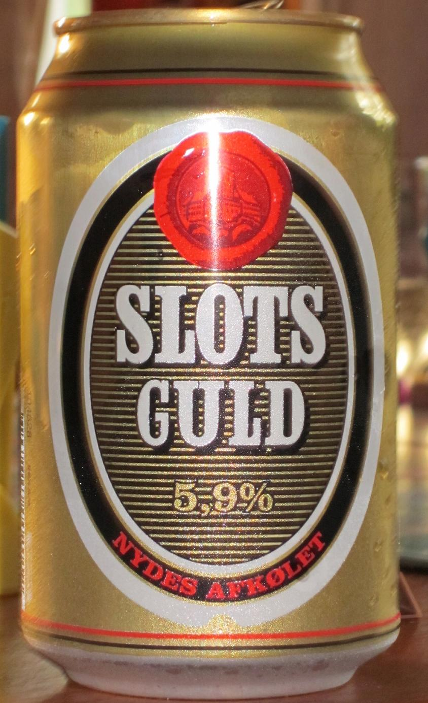 Slots Gold beer can of the Danish brewery Maribo Bryghus.